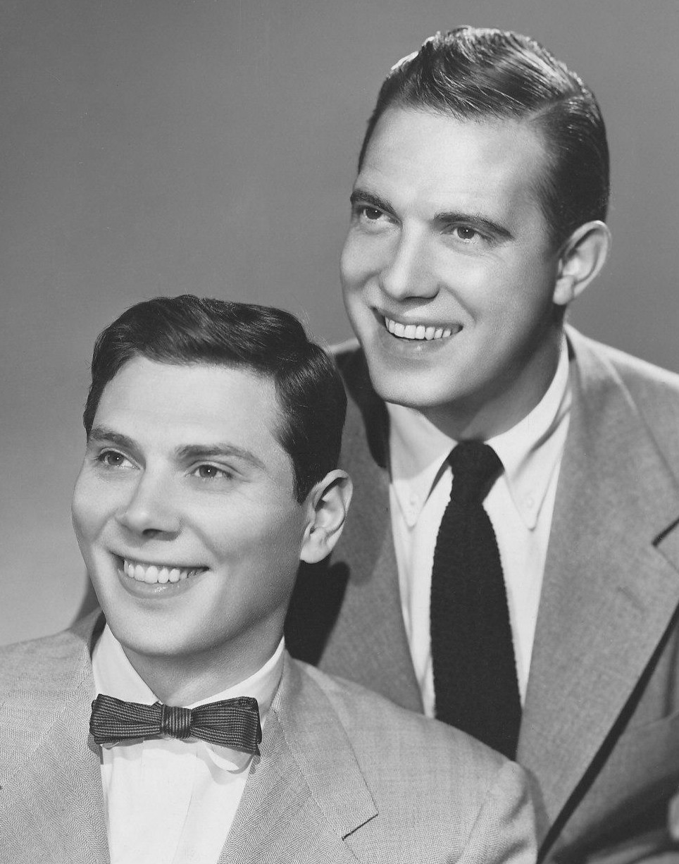 Publicity photo of Gene Rayburn and Dee Finch from their radio program.